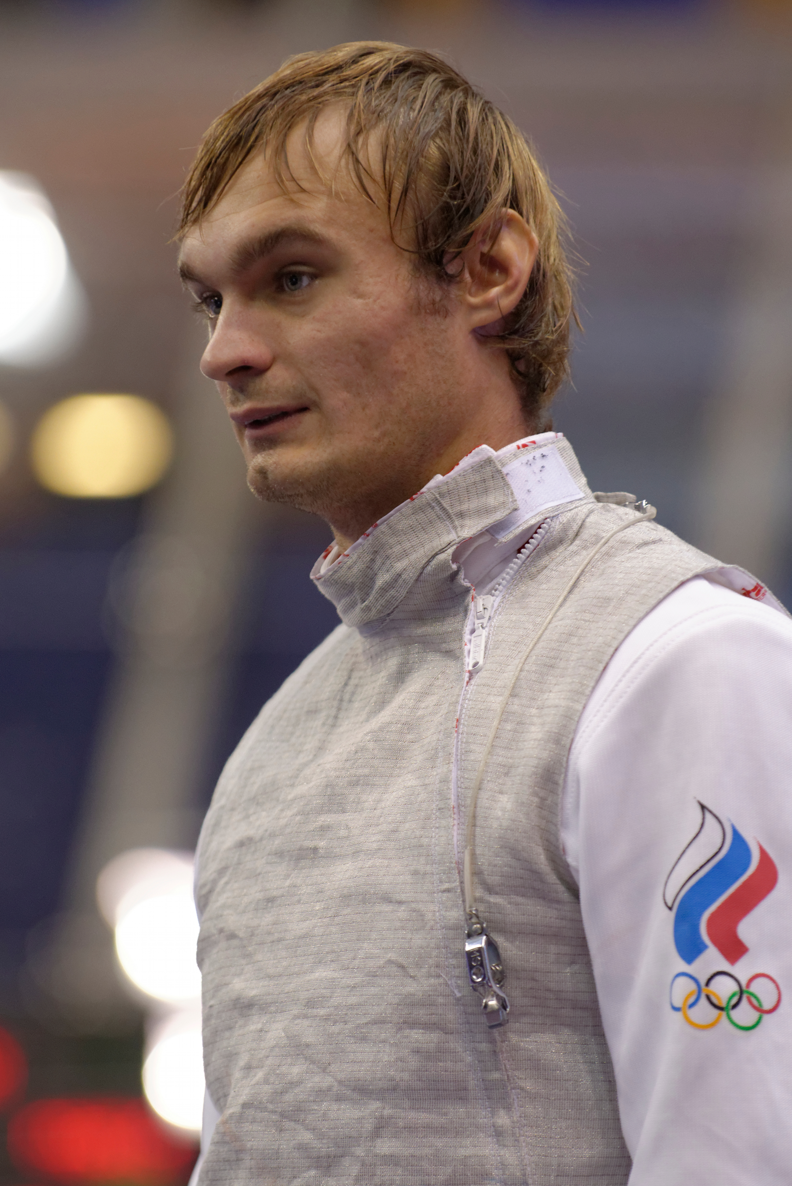 Alexey Khovanskiy of Russia during their T16 match against Brazil in the team event of the 2014 Challenge International de Paris (men's foil World Cup).